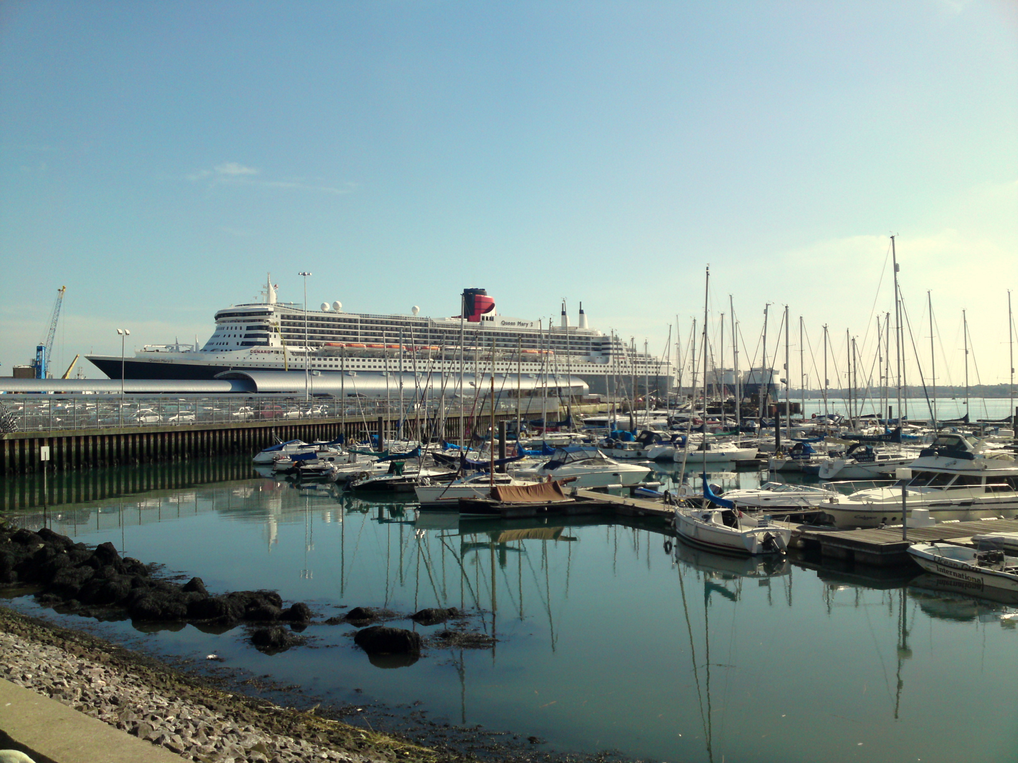 Queen Mary 2 moored in the Southampton Dock, United Kingdom